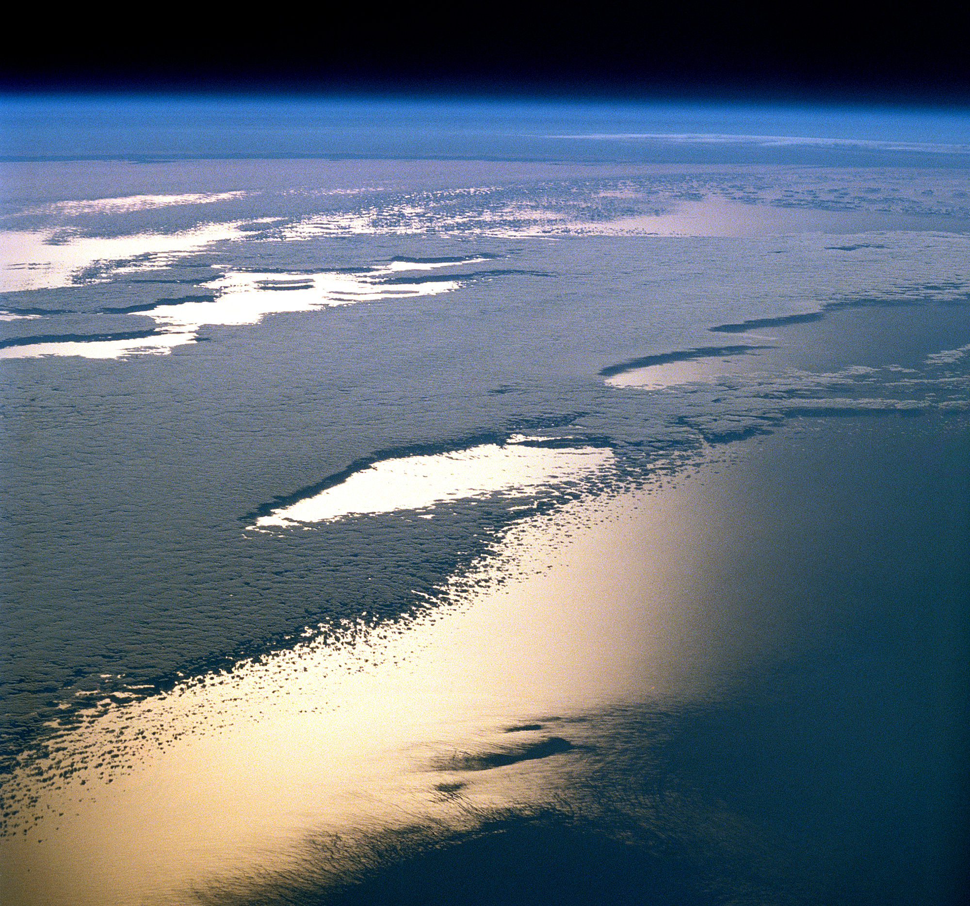 The ocean and sunglint photographed during mission STS-38.